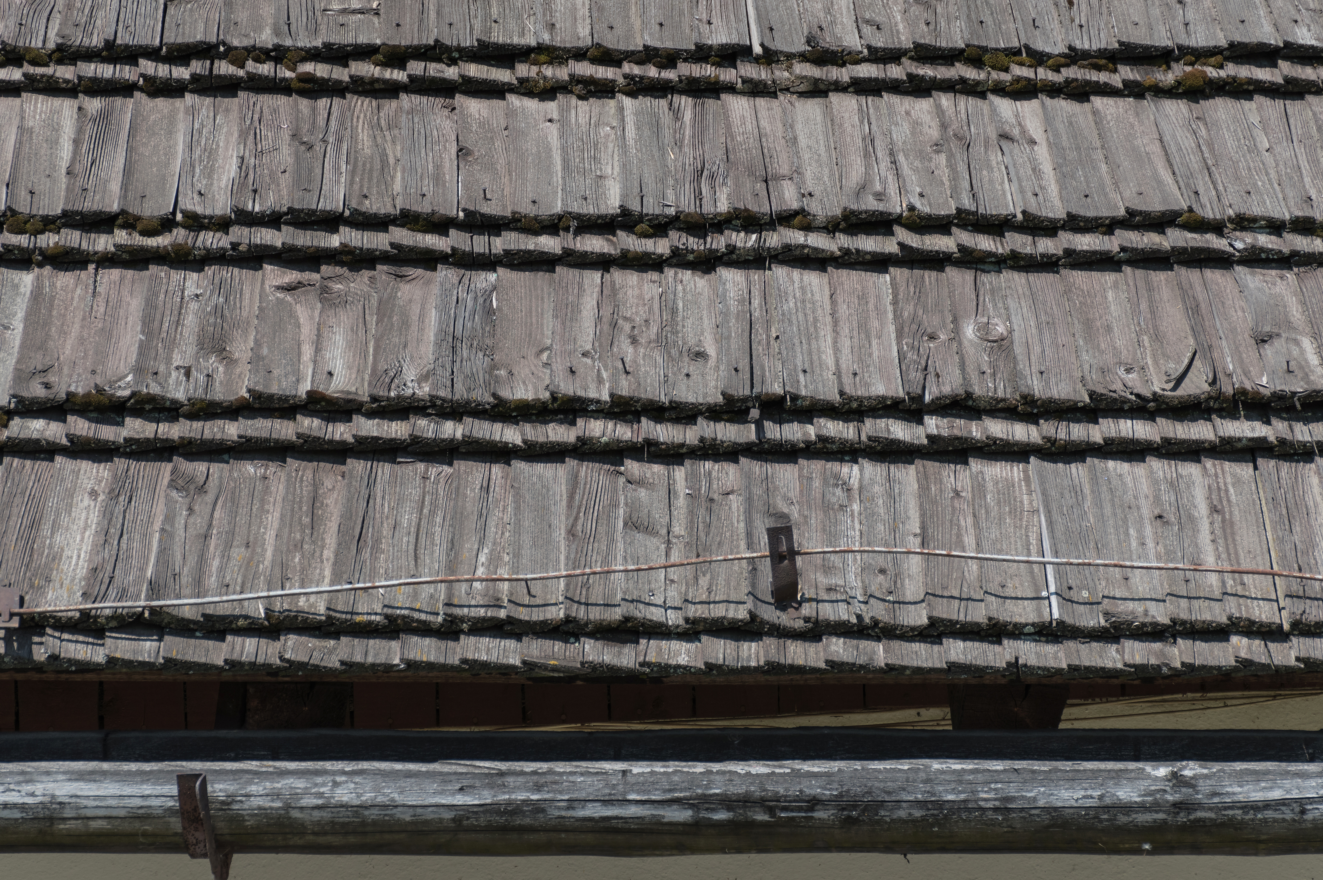 2-4 Sobieskiego Street in Międzylesie